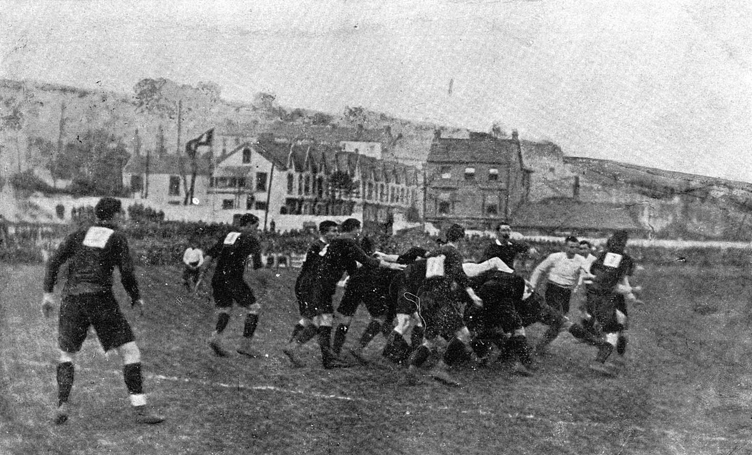 New Zealand national team v. Swansea RFC, during the Original All Blacks tour of Europe.